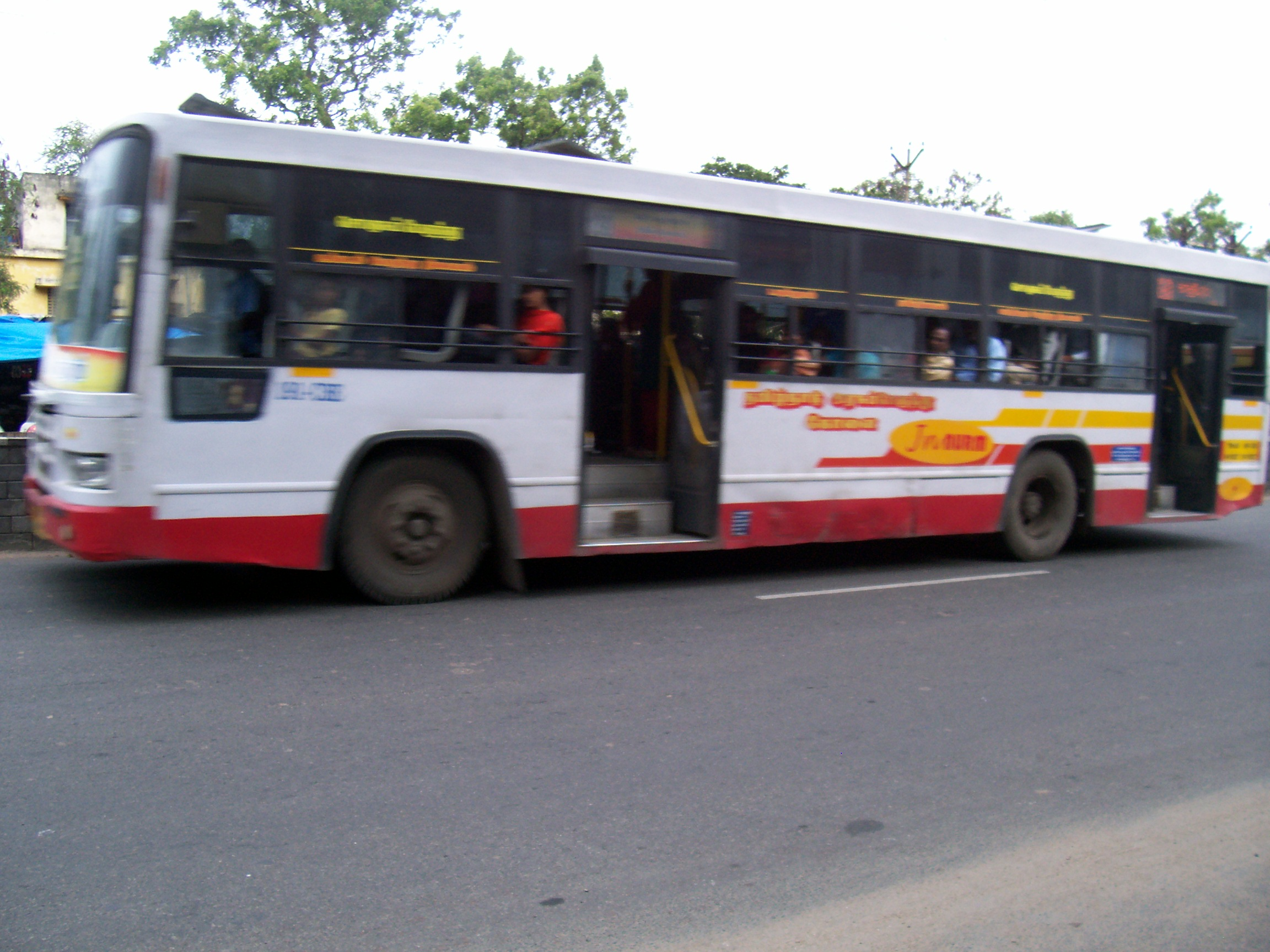 Bus in Coimbatore.